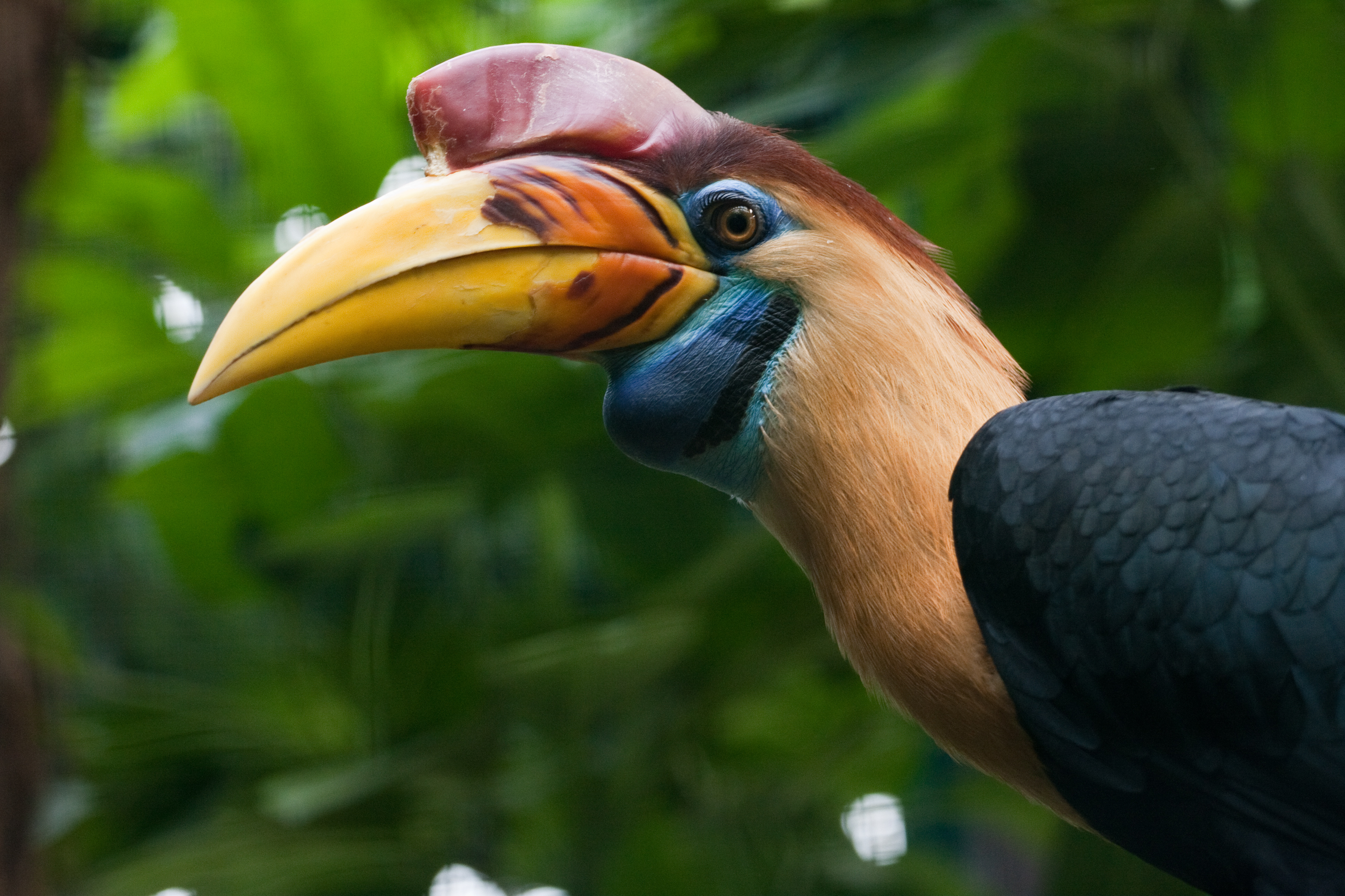 A male Knobbed Hornbill in Weltvogelpark Walsrode, Germany.